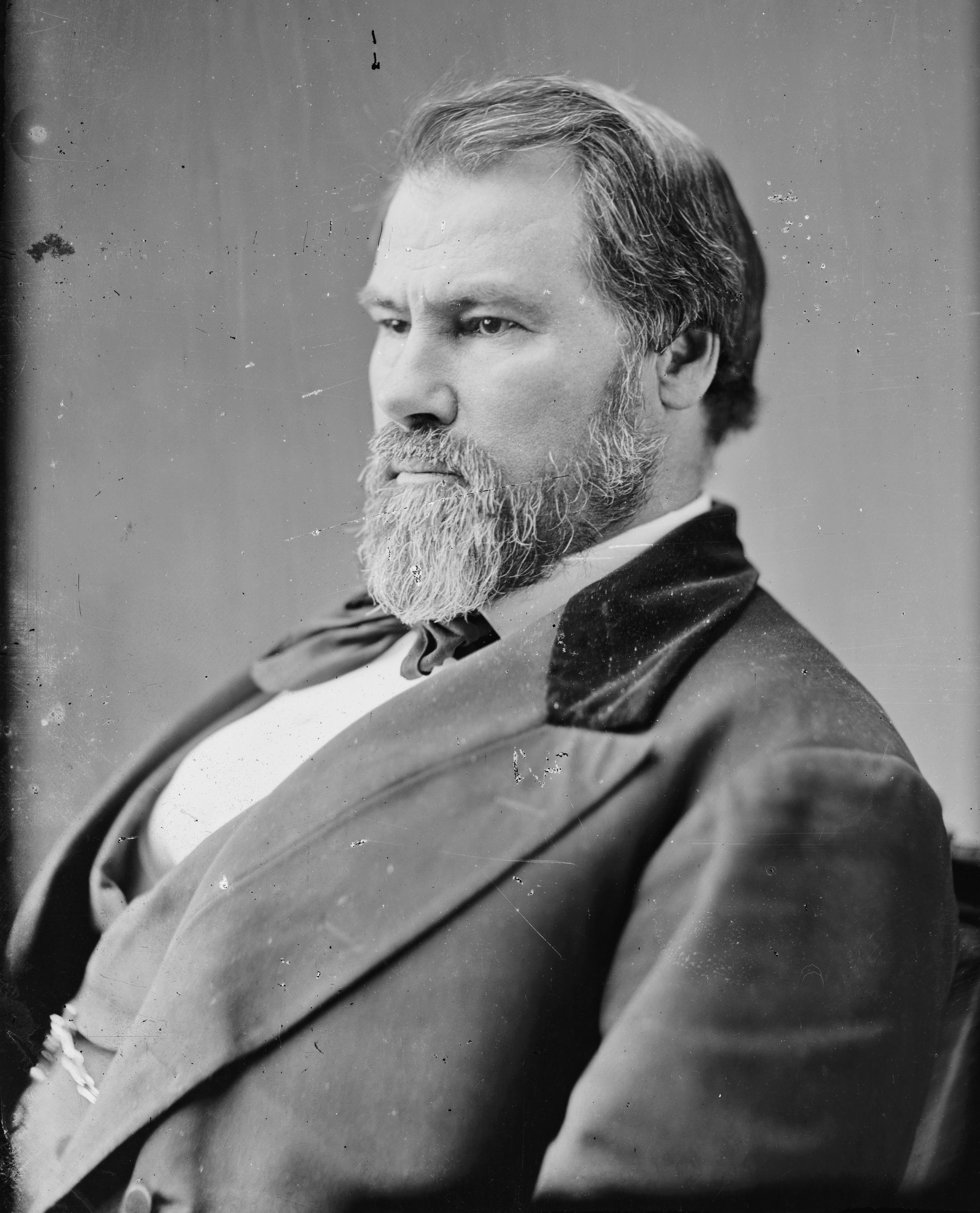 John Henninger Reagan. Library of Congress description: "Hon. John H. Reagan Senator from Texas"